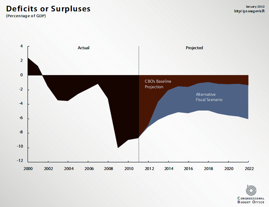 This is a CBO diagram showing projected deficits with and without the effects of the fiscal cliff.